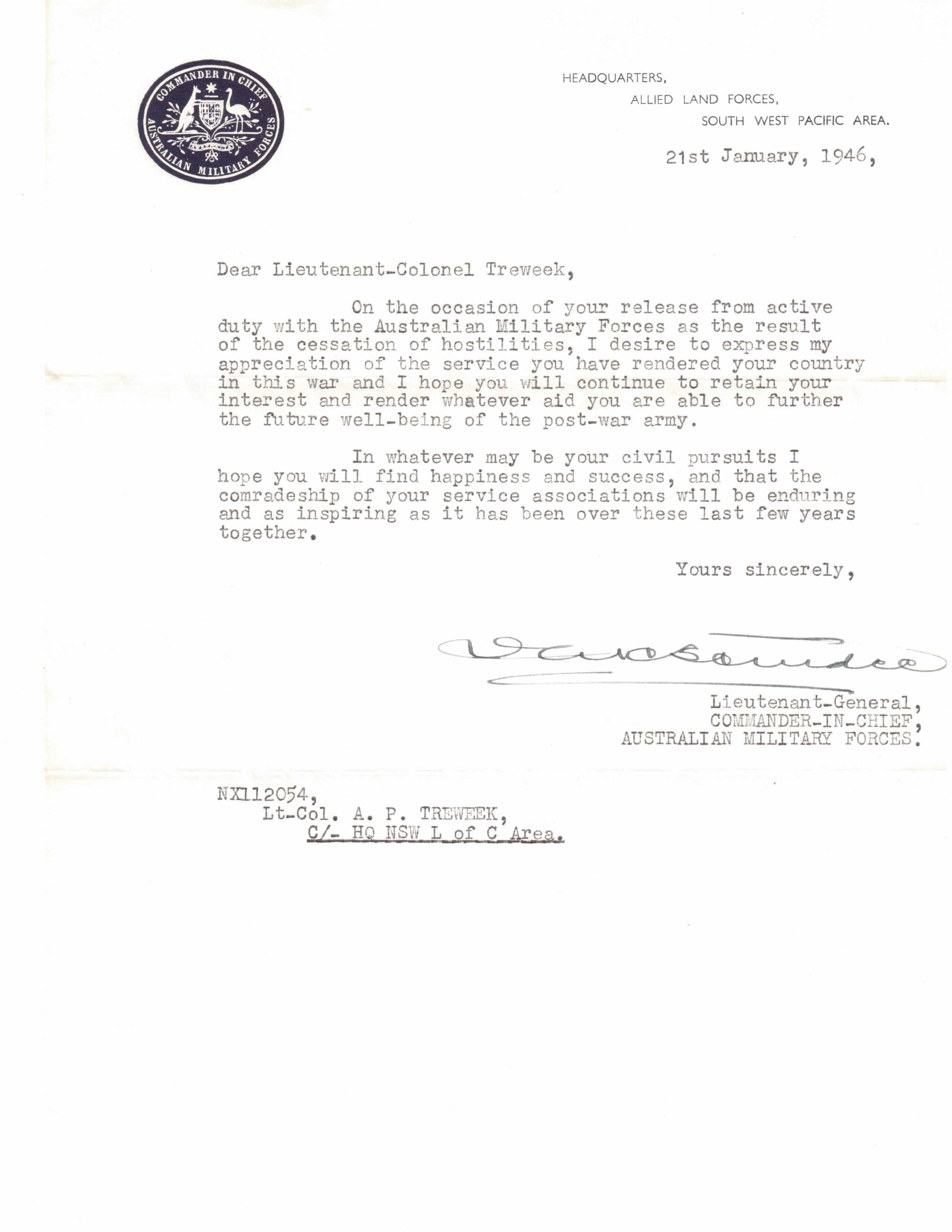 Official document from Headquarters allied land forces South Pacific area 21 January 1946. Athanasius Pryor Treweek release from active duty.